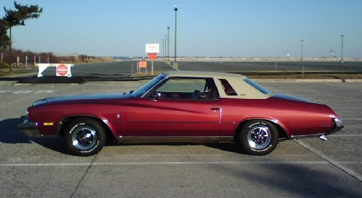 A 1973 First generation Buick regal